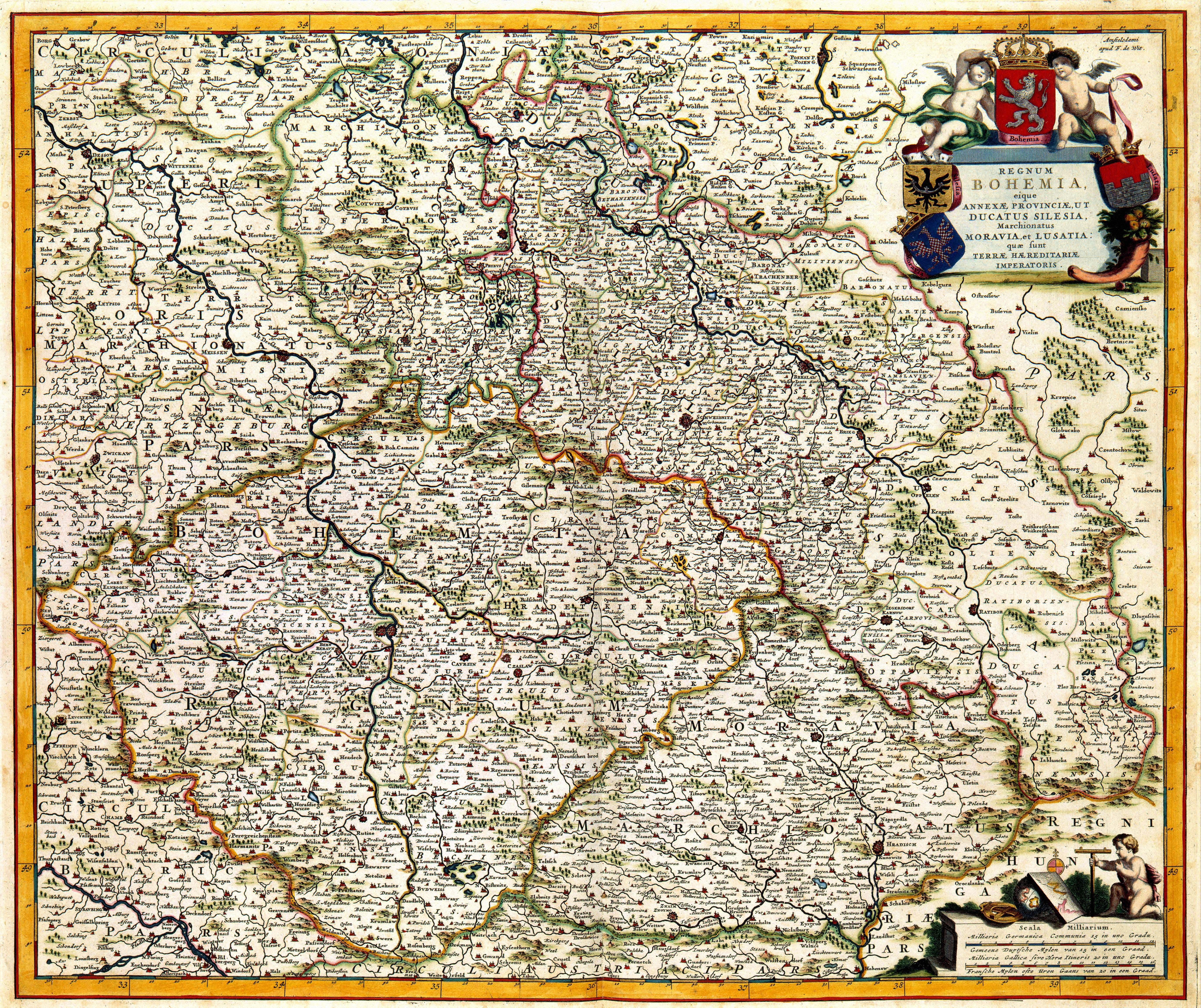 Though this map was published by Frederik de Wit (1630-1706) only at the end of the 17th century, it shows Bohemia around 1620. De Wit based this map on one by his colleague Jan Janssonius (1588-1664). In 1620 Janssonius had published a Dutch version of the Bohemia map which had been published the previous year by Paul Aretin in Prague.